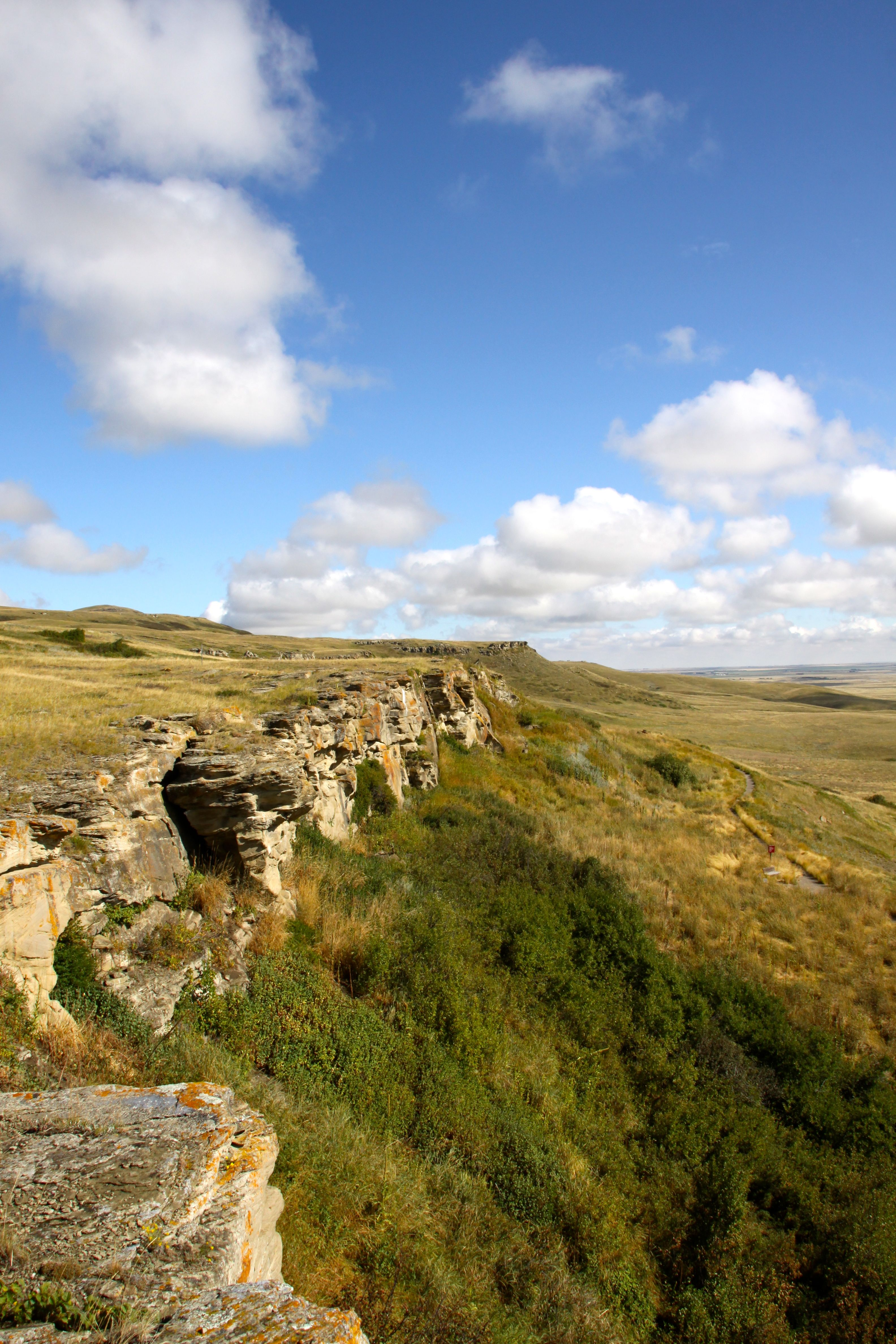 Head-Smashed-In Buffalo Jump